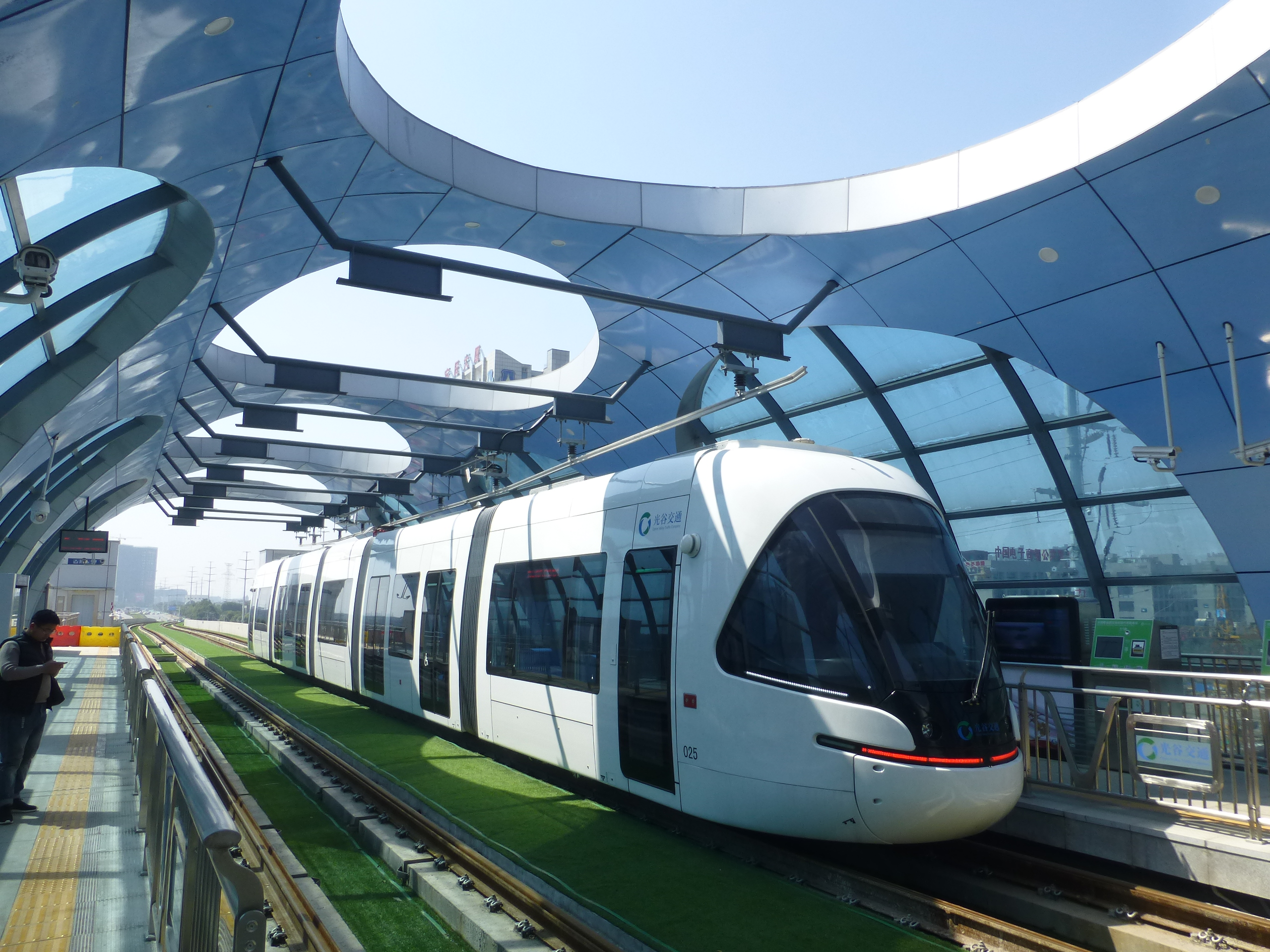 The Guanggu Streetcar Line in Wuhan, near Wudayuan Station. This is one of the few elevated stations of the system. Along most of the line, grass is planted between the rails and around the tracks; but on the elevated section, astroturf is used!